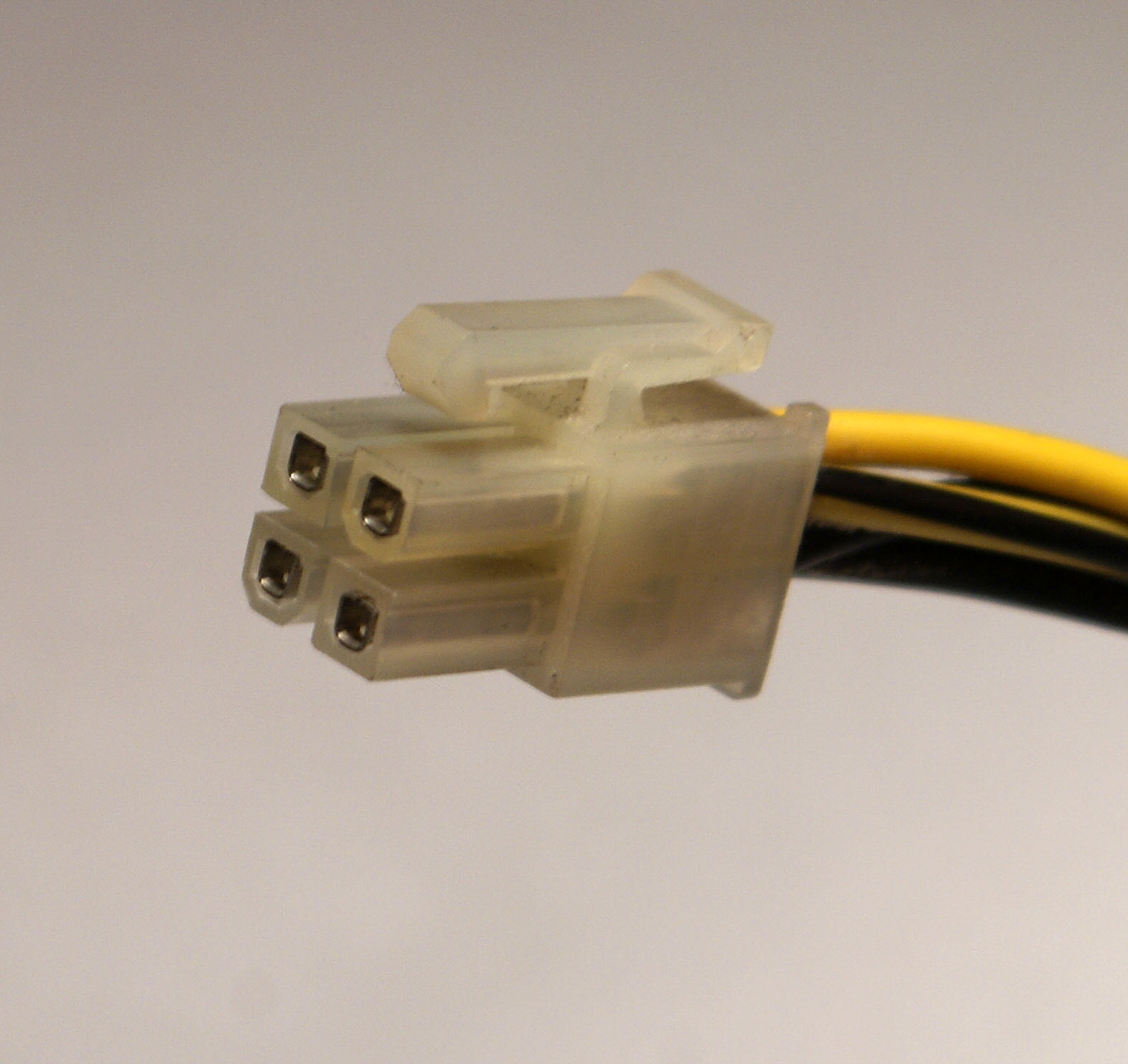 ATX Power Supply 12V (P4) Connector